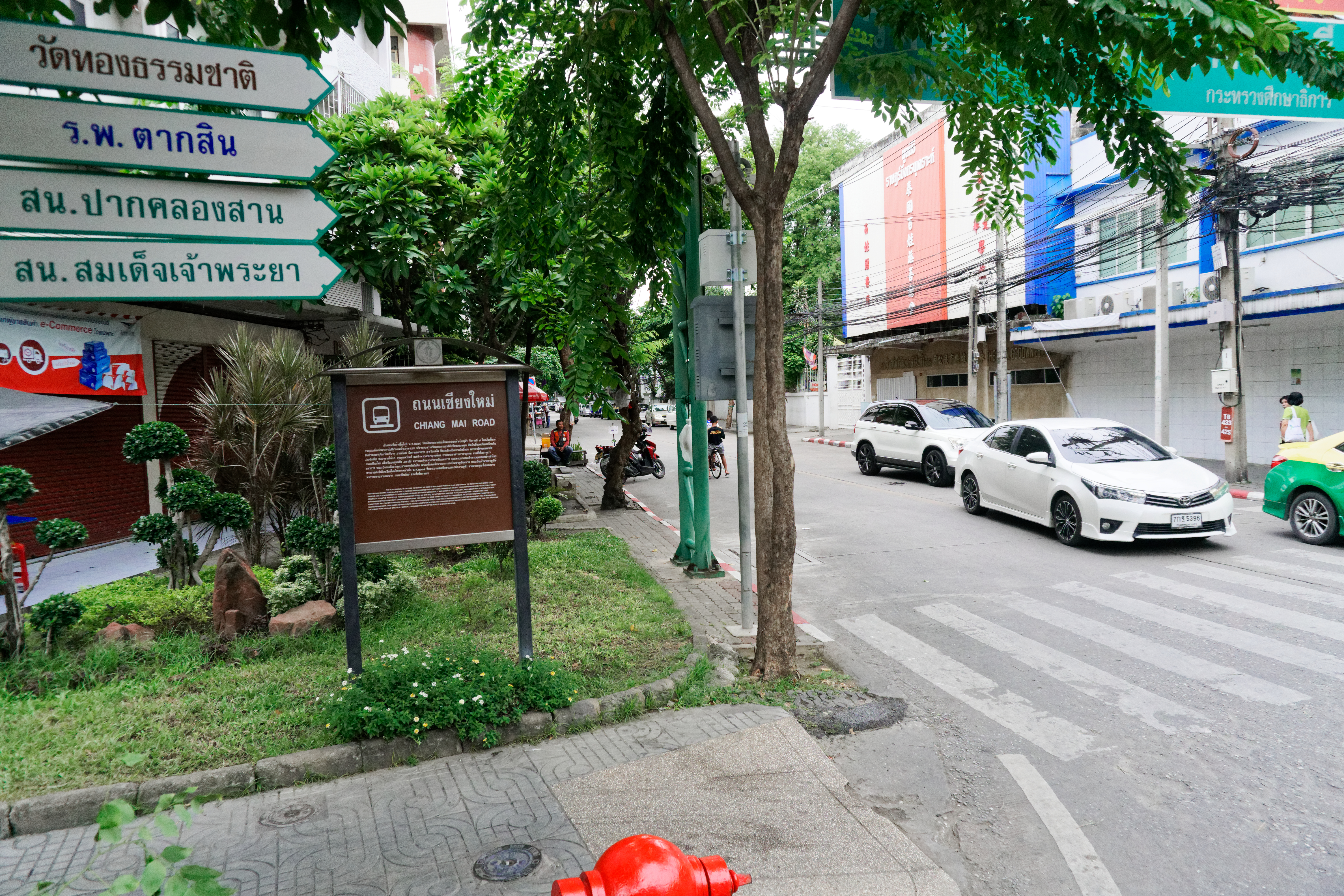 Chiang Mai road entrance with a sign